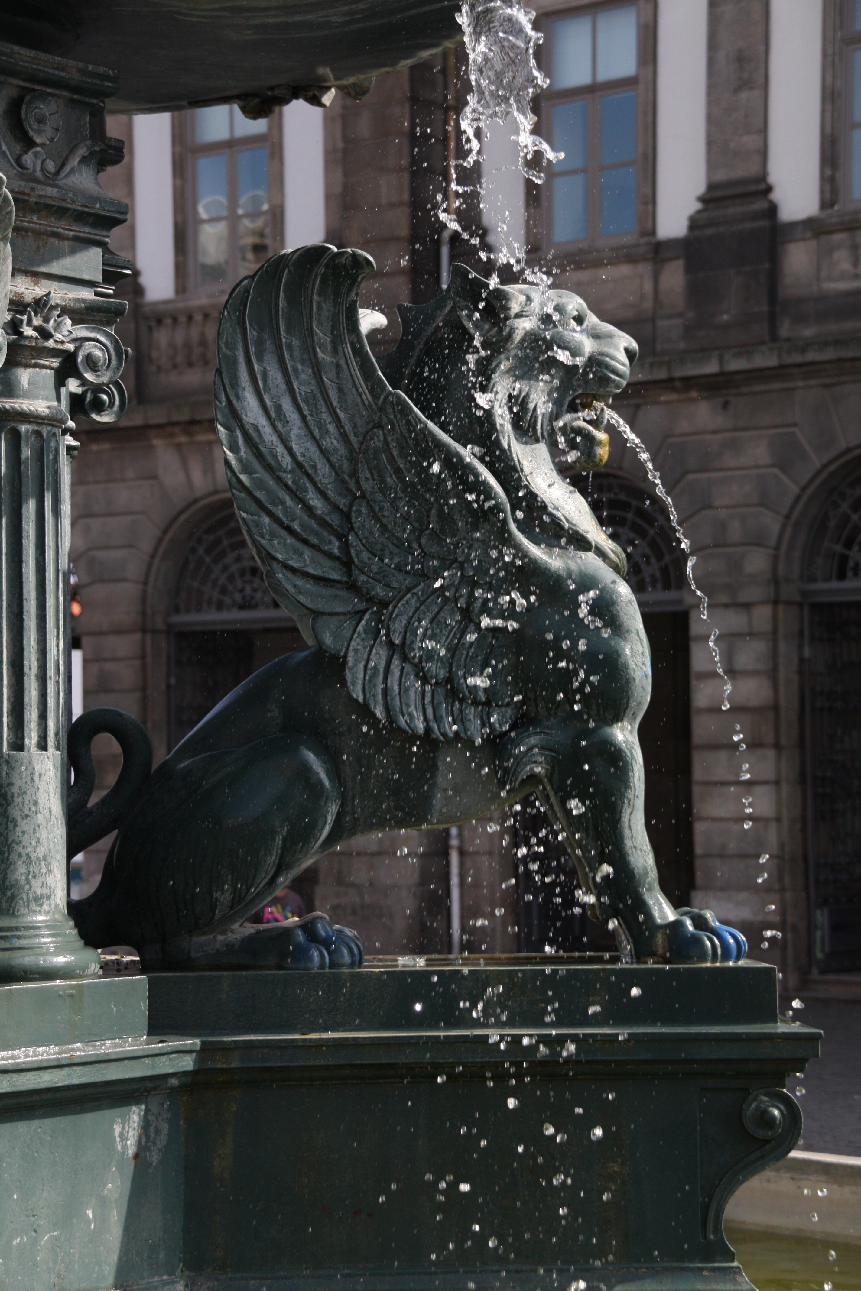 Praça de Gomes Teixeira, Oporto, Portugal.